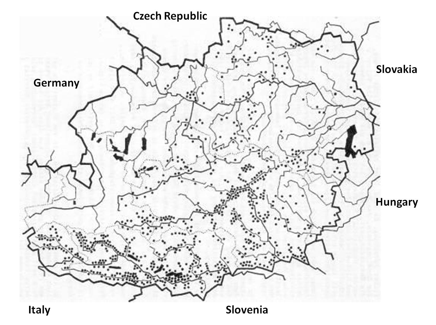 Map of place names of Slavic (Alpine Slavic) origin in Austria. Adaptation of map by Otto Kronsteiner, source Heinz Dieter Pohl, University of Klagenfurt (